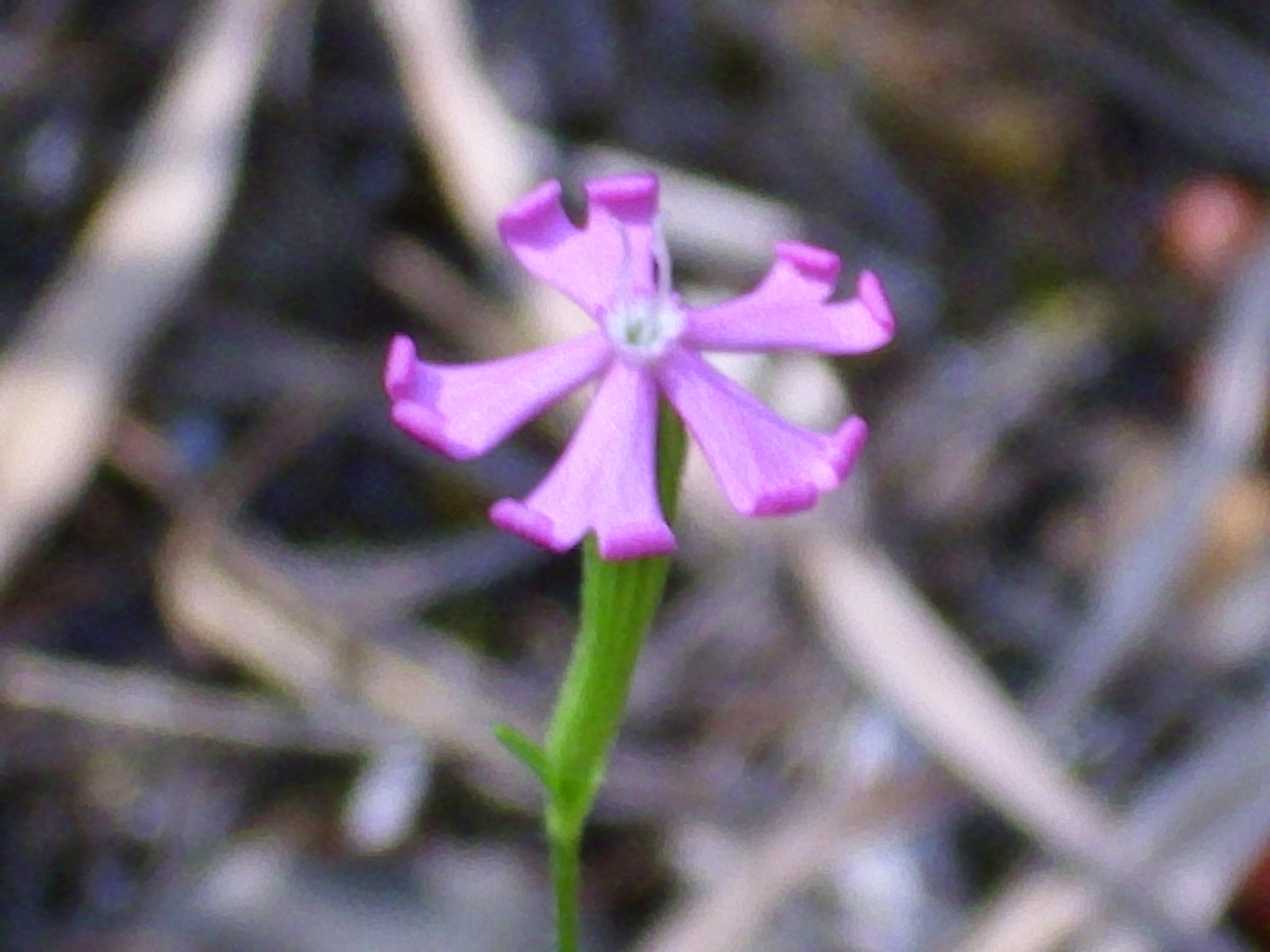 Silene mariana flower close up, Dehesa Boyal de Puertollano, Spain